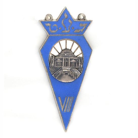 School Graduation Badge — Tallinn Jewish School, VIII issue